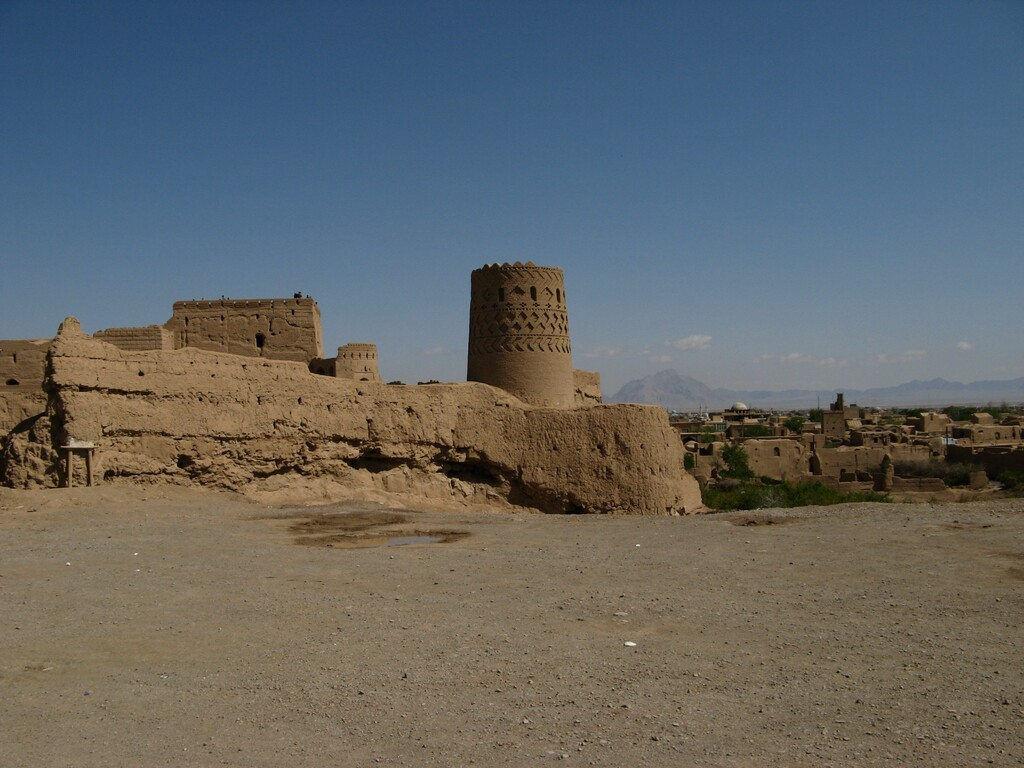 The Narein castle, Meybod, Yazd province.